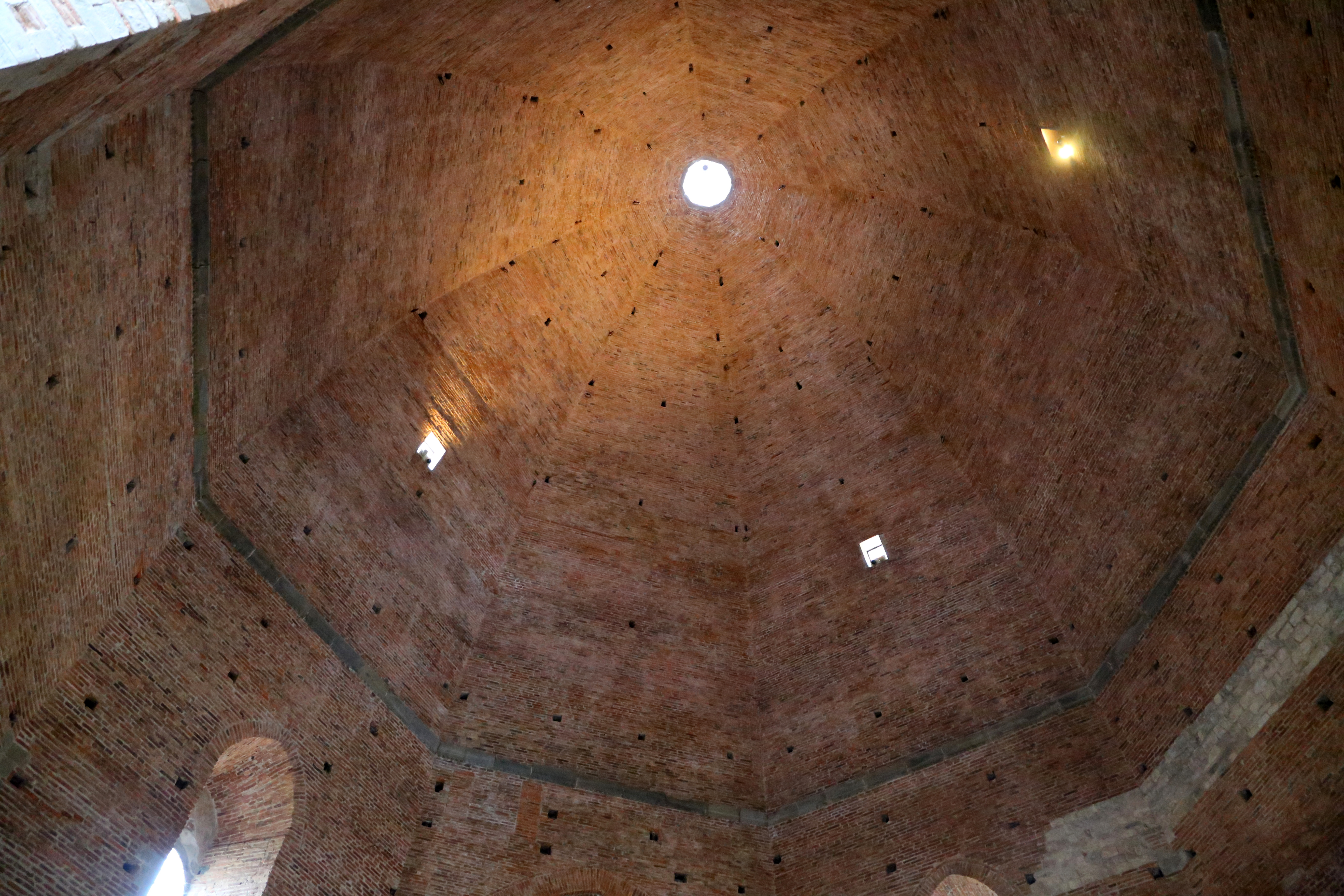 Baptistry (Pistoia)